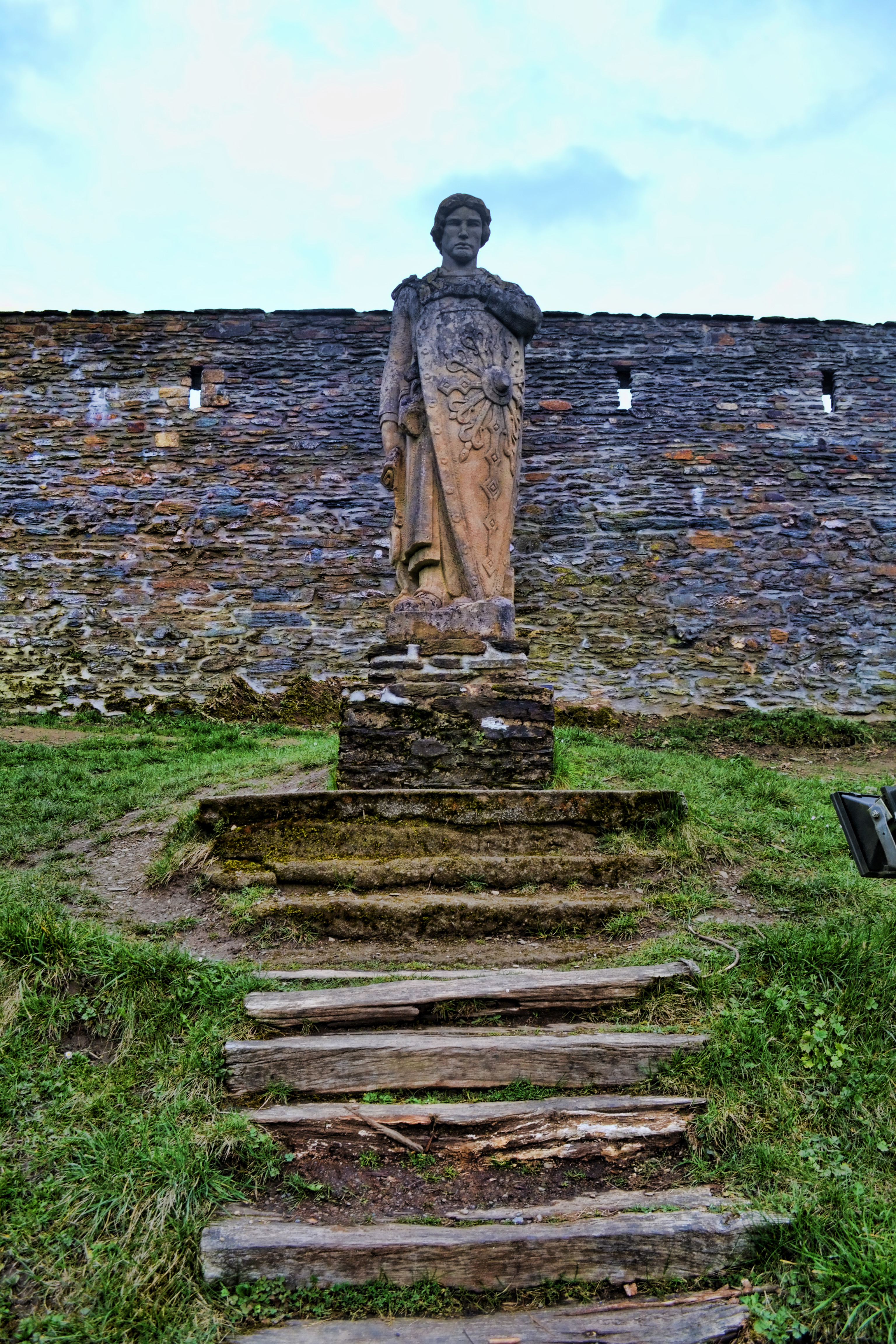 Godfrey of Bouillon (18 September 1060 – 18 July 1100) was a medieval Frankish knight who was one of the leaders of the First Crusade from 1096 until his death. He was the Lord of Bouillon, from which he took his byname, from 1076 and the Duke of Lower Lorraine from 1087. After the successful siege of Jerusalem in 1099, Godfrey became the first ruler of the Kingdom of Jerusalem. He refused the title of King, however, as he believed that the true King of Jerusalem was Christ, preferring the title of Advocate (i.e., protector or defender) of the Holy Sepulchre (Latin: Advocatus Sancti Sepulchri). He is also known as the "Baron of the Holy Sepulchre" and the "Crusader King".